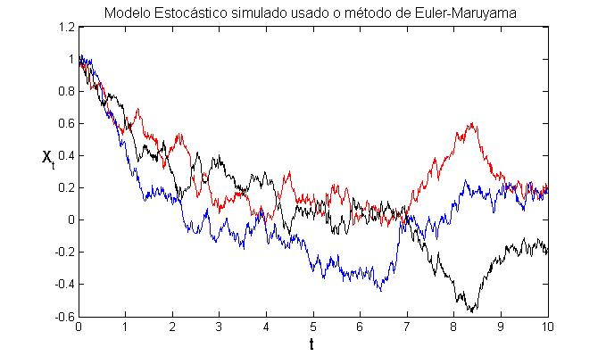 Numerical solution of a Stochastic Differential Equation